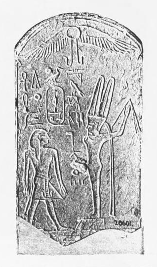 Ancient Egyptian stele depicting pharaoh Neferhotep I (left) in front of the god Min. 13th Dynasty, Second intermediate period. Limestone from Abydos (northern walls, temple of Osiris). Cairo Museum, CG 20601.